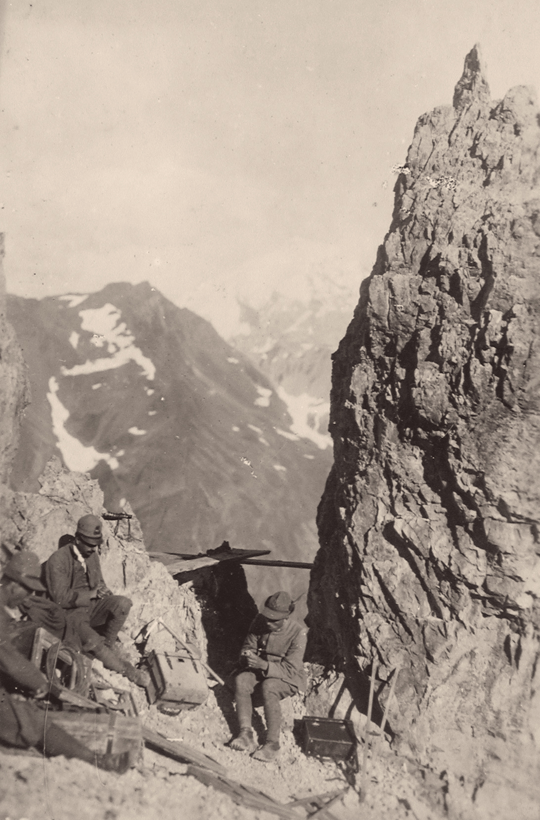 World War 1 - Italian Army: Monte Nero - Italian Observartion Post